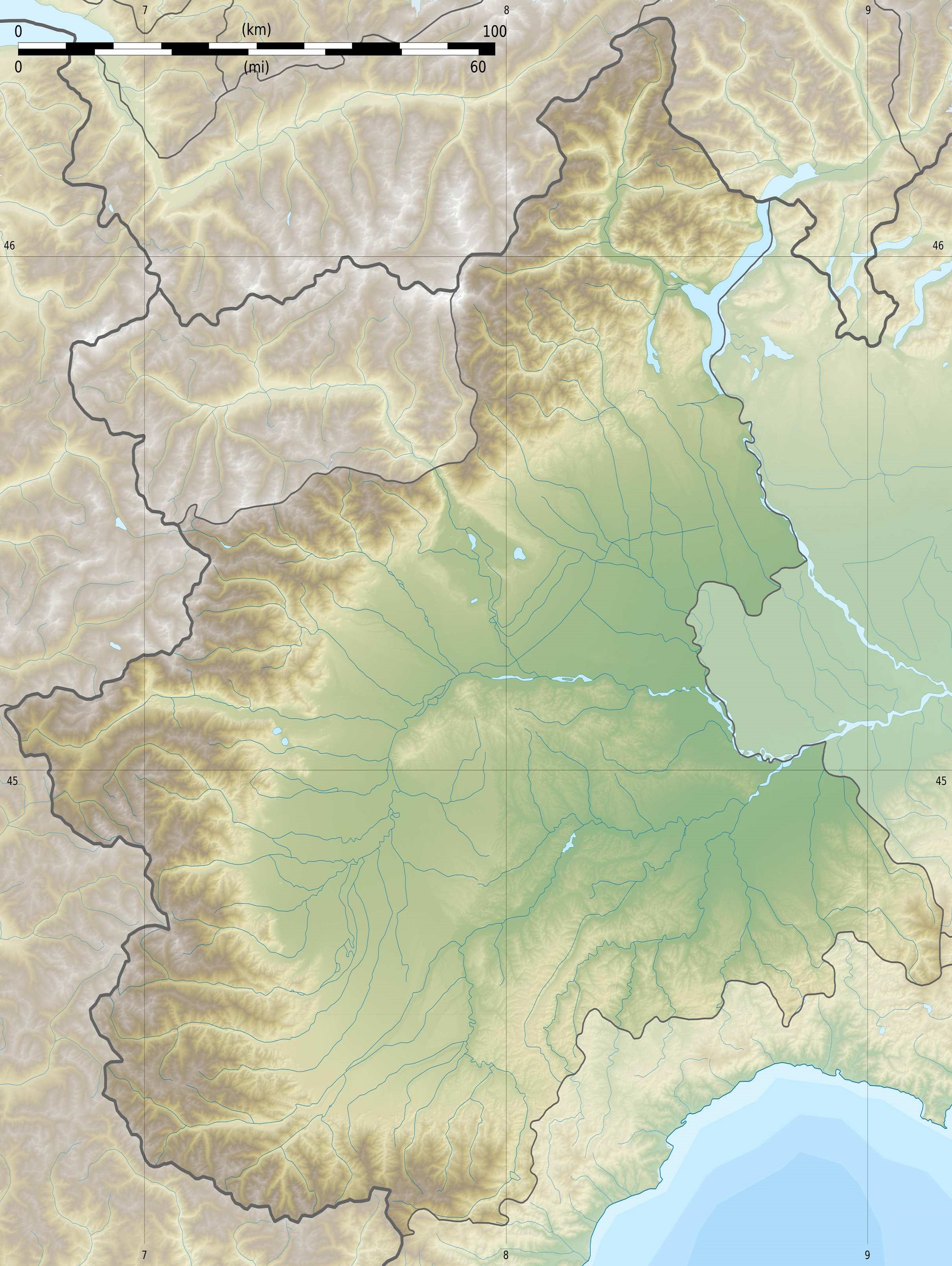 Blank physical map of the Piedmont, Italy, for geo-location purpose. Topography: 1:372,000 (precision: 93 m) Equirectangular projection, WGS84 datum + stretching vertical +20% Geographic limits of the map: Left: 6.6 Right: 9.2335 Top: 46.5 Bottom: 44.0336